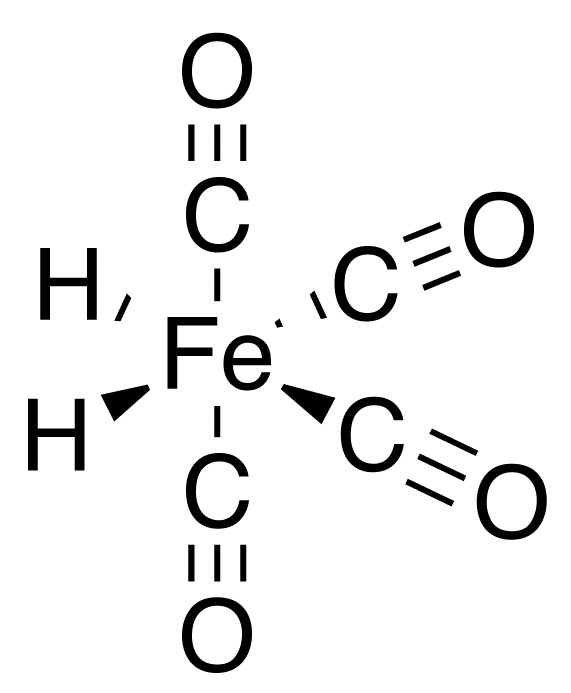 Structure of Iron tetracarbonyl hydride